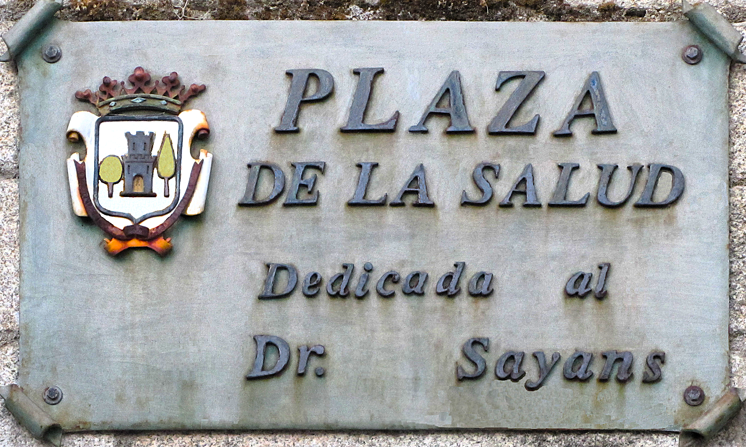 Street sign of Plaza de la Salud in Plasencia (Spain).